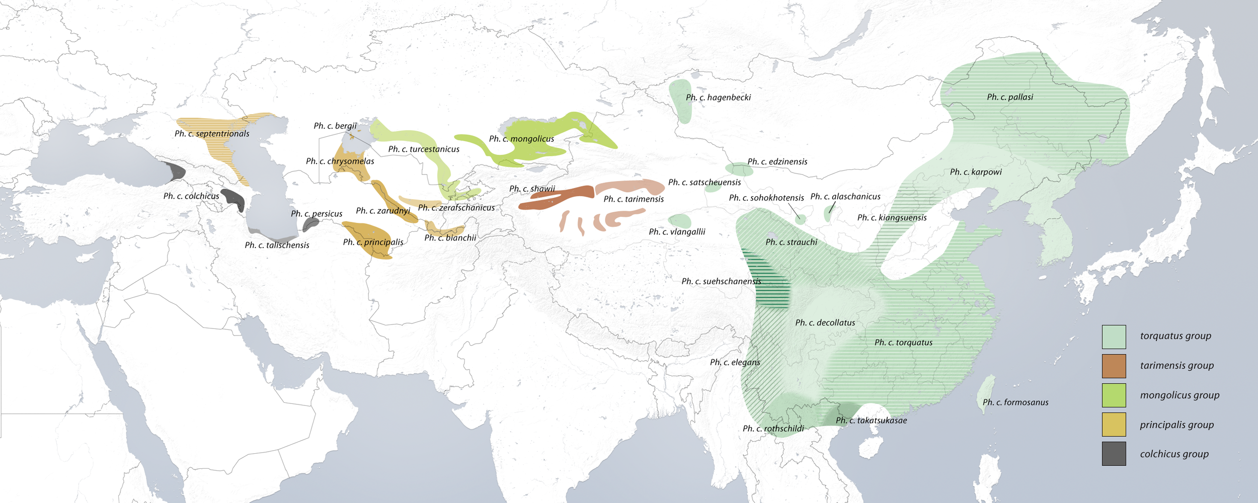 Original Distribution, subspecies and subspecies groups of the Common Pheasant (Phasianus colchicus)